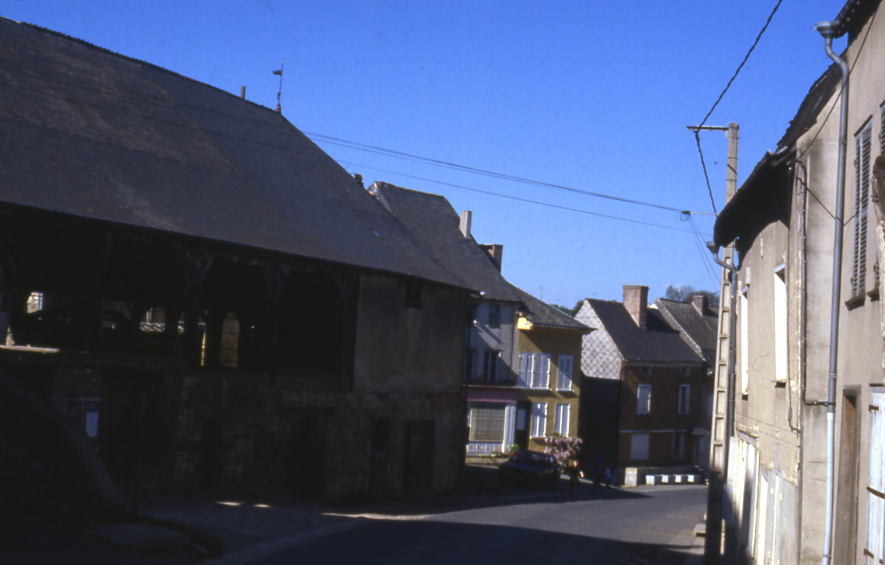 historical market hall in Wasigny, dept. Ardennes, France